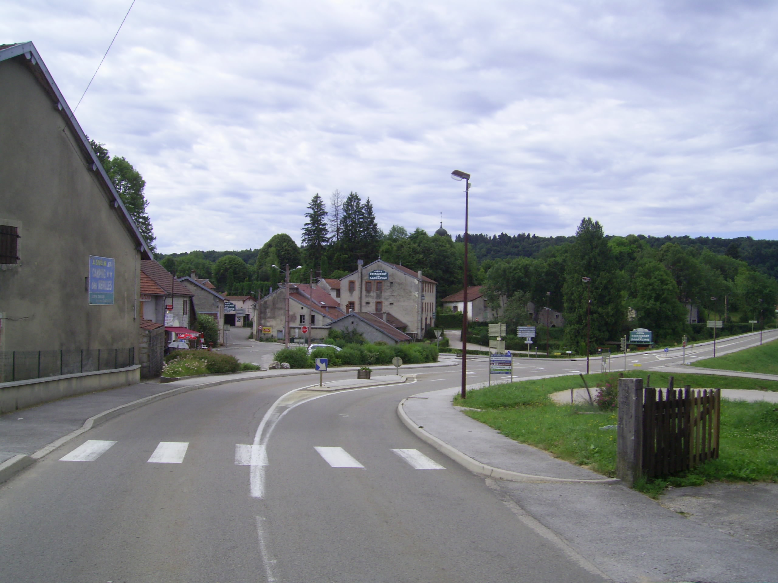 Doucier in the dépatement Jura, France.